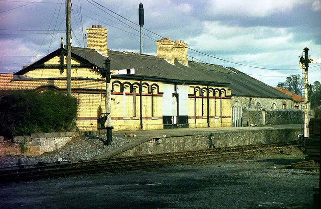 Navan Station Navan Station (GNR) opened 15-02-1850 closed 14-04-1958. The station though closed to passengers, still sees regular goods traffic passing to and from the Tara Mines Depot at Navan.